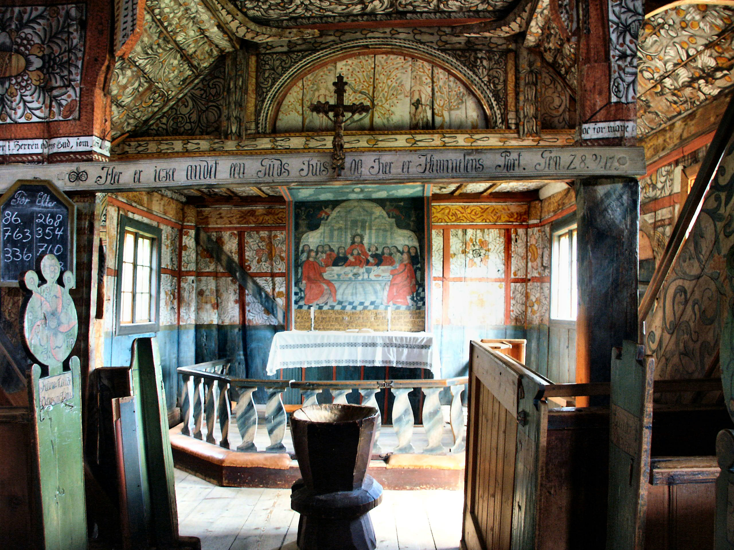 Uvdal stave church, interior Photo: Frode Inge Helland, 2005